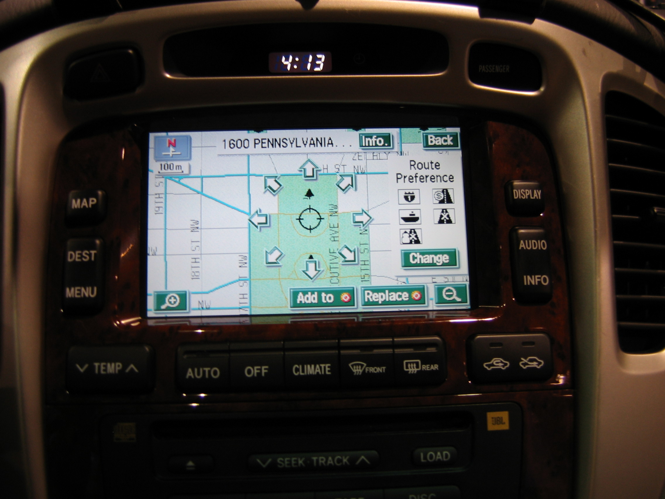 Navigation system on the Toyota Highlander Hybrid's multi-function display.